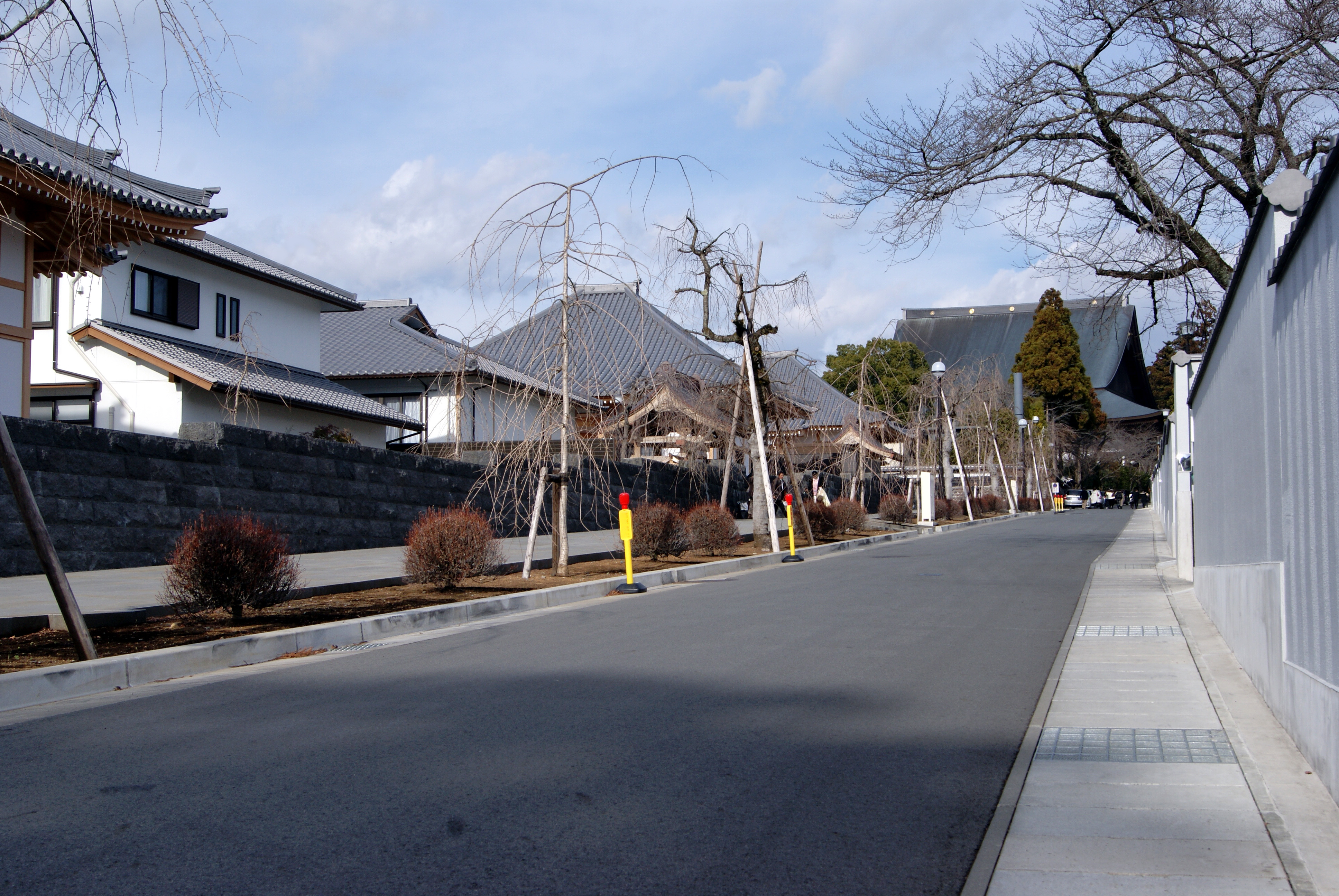 Ura-tacchū(west) of Taiseki-ji.